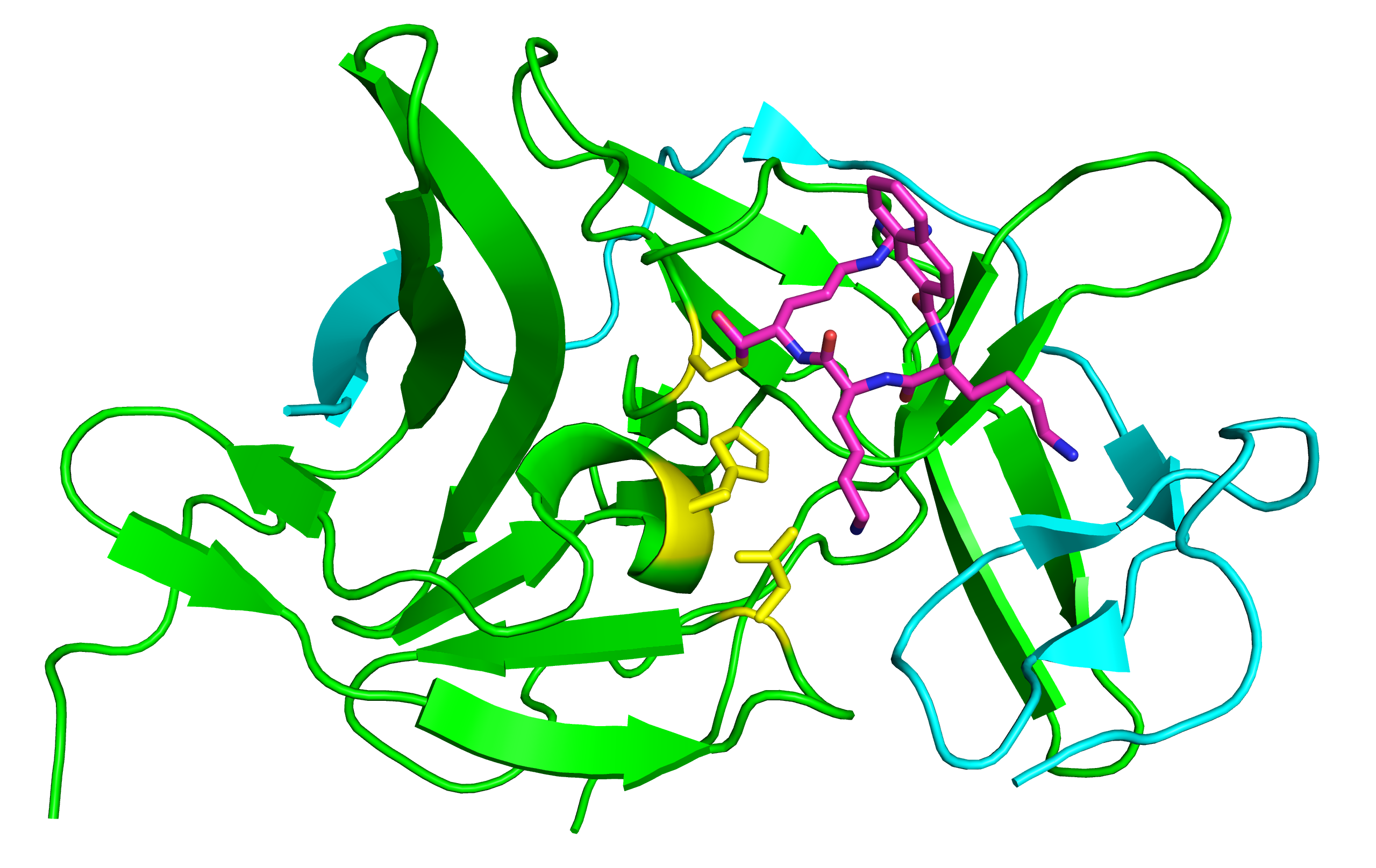 The crystal structure of the NS2B/NS3 protease of West Nile virus is a heterodimer consisting of the NS2B cofactor (cyan) and NS3 (green) viral proteins. The catalytic residues are shown in yellow and a bound inhibitor as magenta sticks. Ribbon representation prepared from PDB file 3e90.